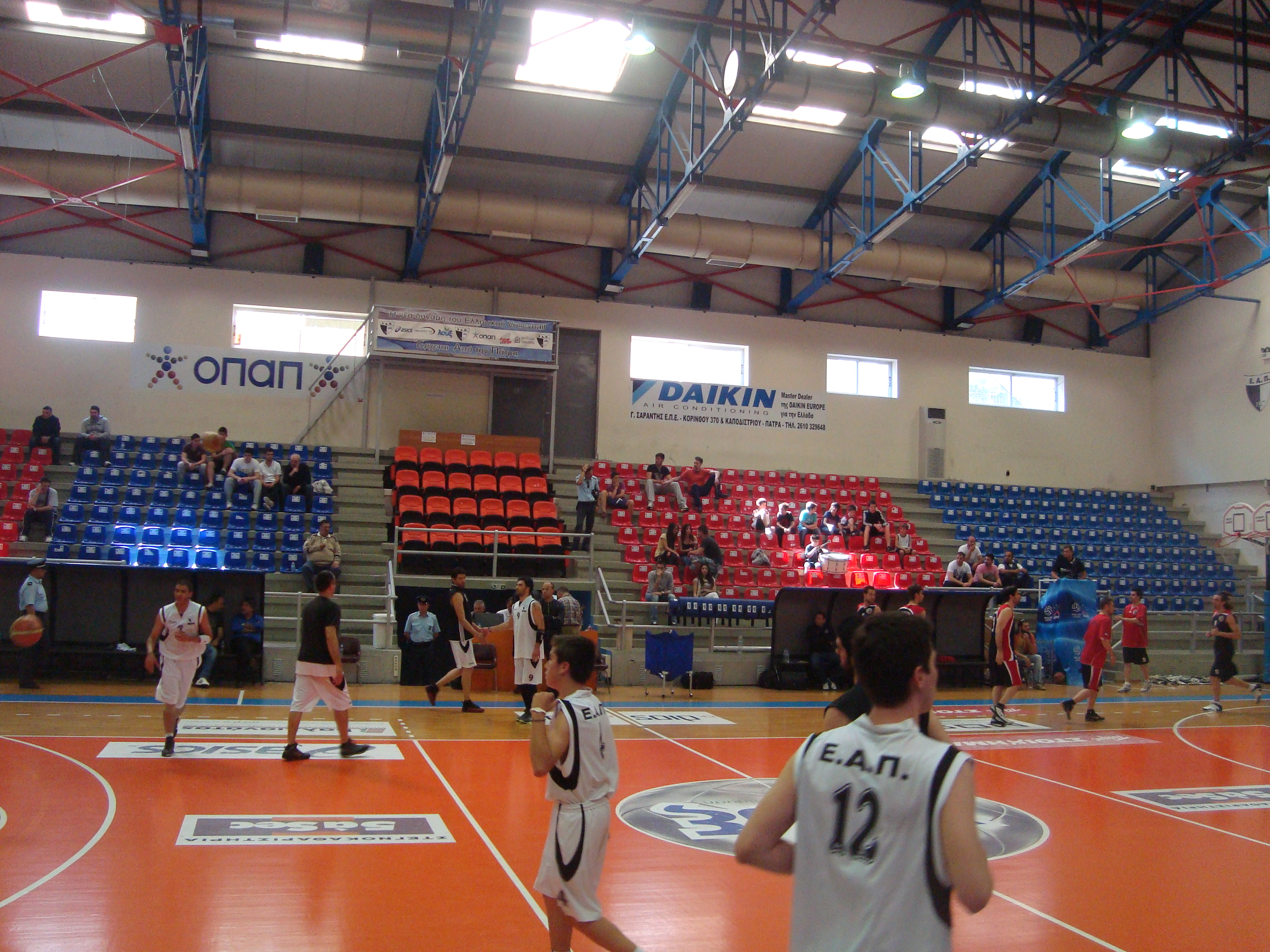 E.A. Patron Palais des Sports